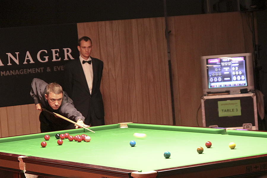 Scottish snooker player Stephen Hendry.